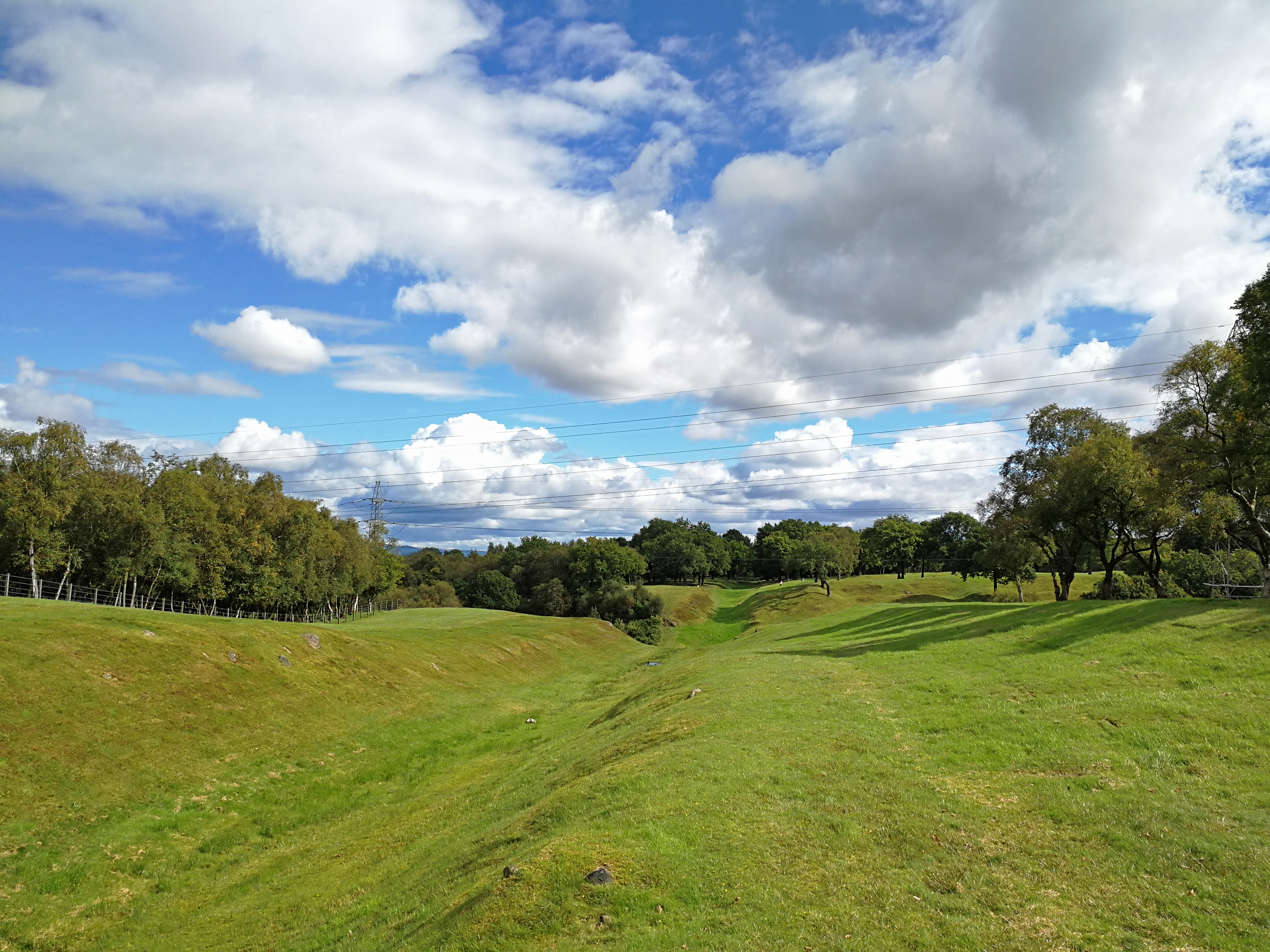 Antoninus Wall near Bonnybridge